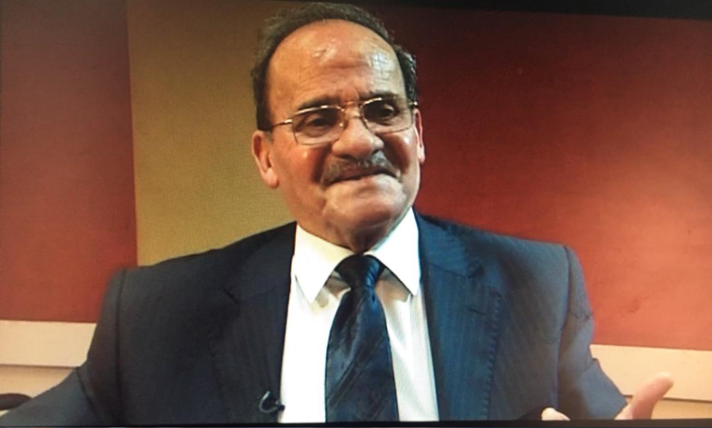 picture